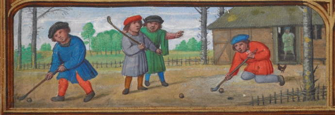 This digital image has been slightly cropped around the top and bottom edges by user:RickyBennison; it was found at